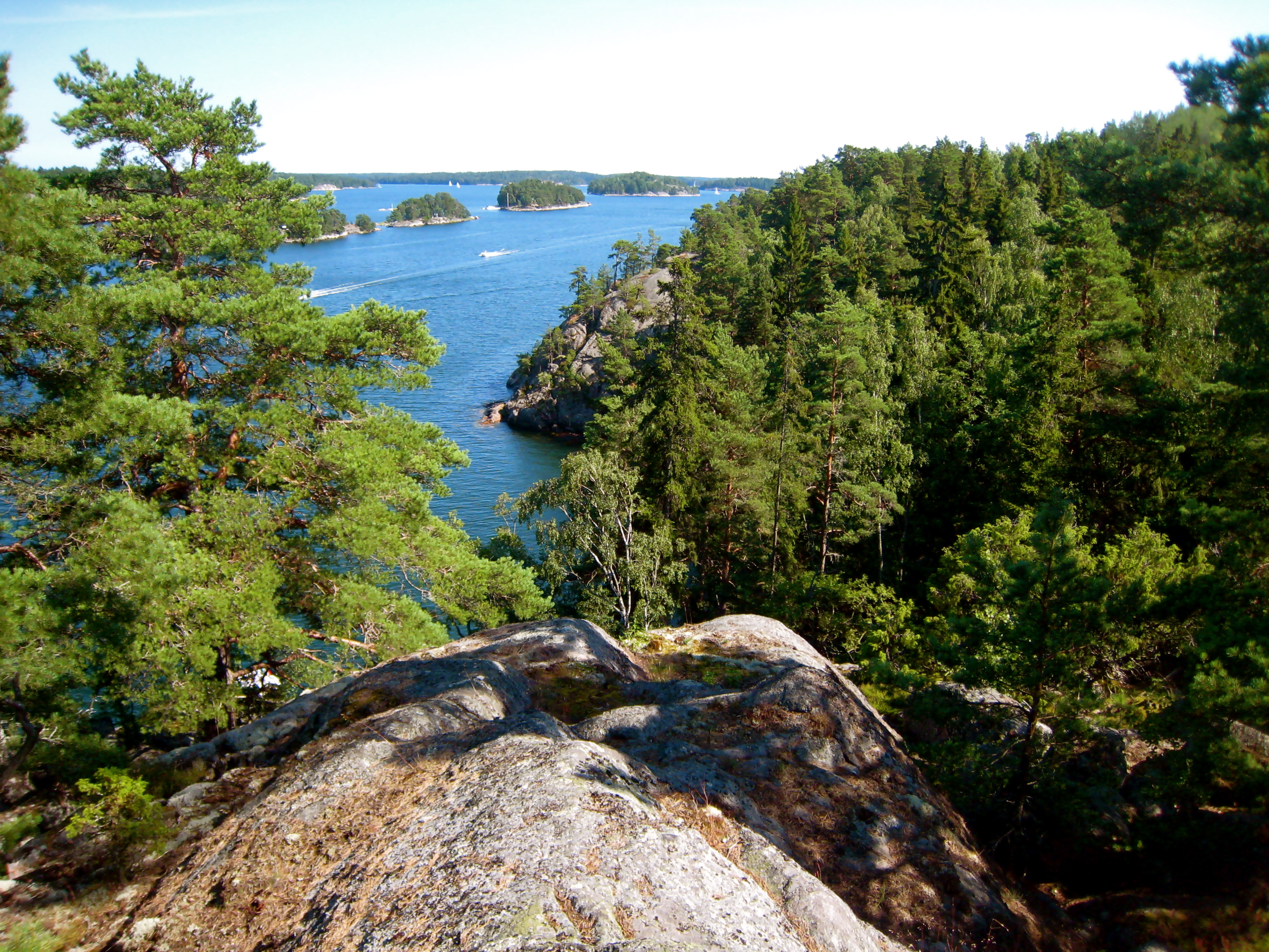 Pinus sylvestris at Grinda